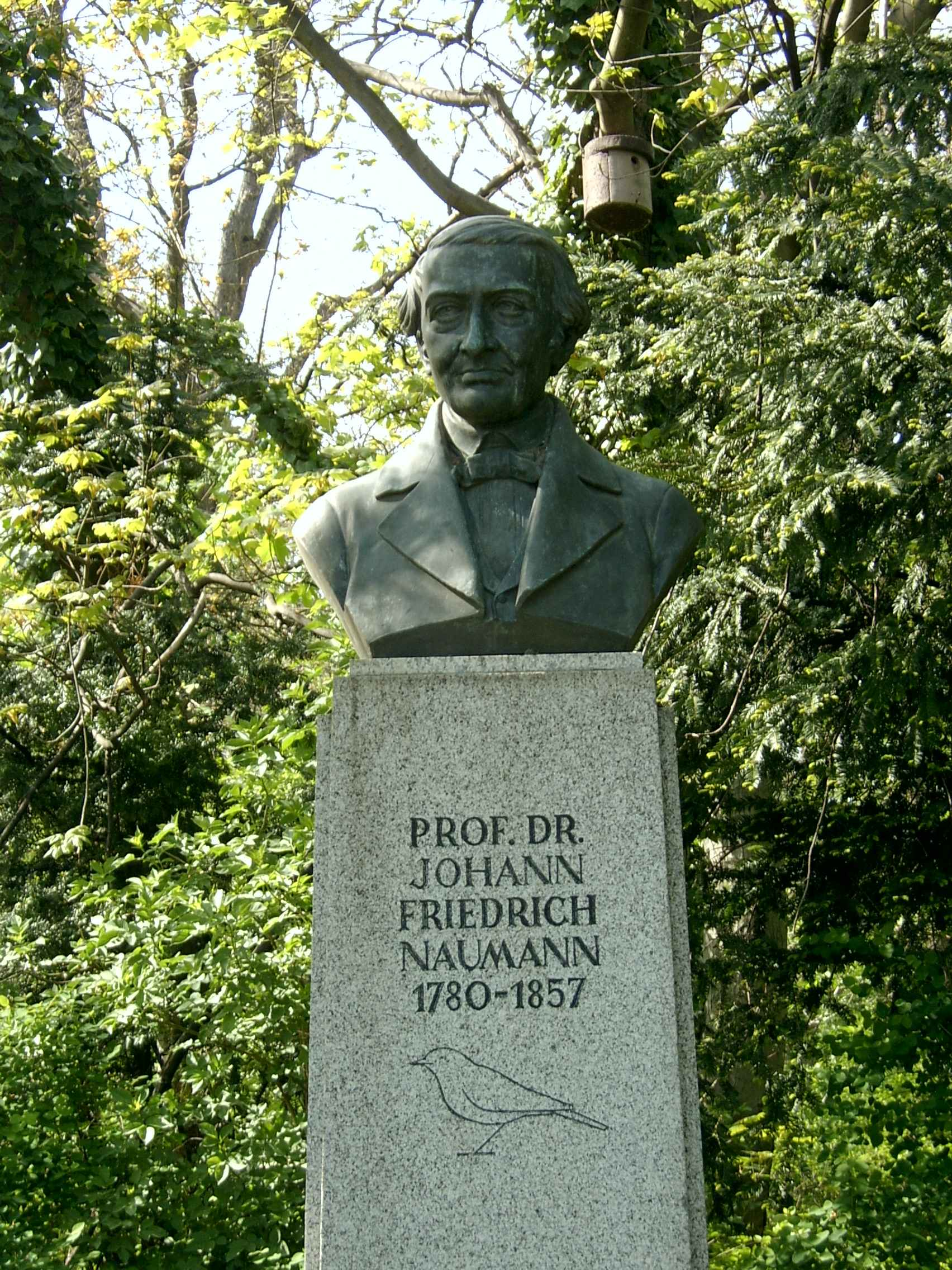 Monument of Johann Friedrich Naumann in Köthen, sculpted by Heinrich Pohlmann.